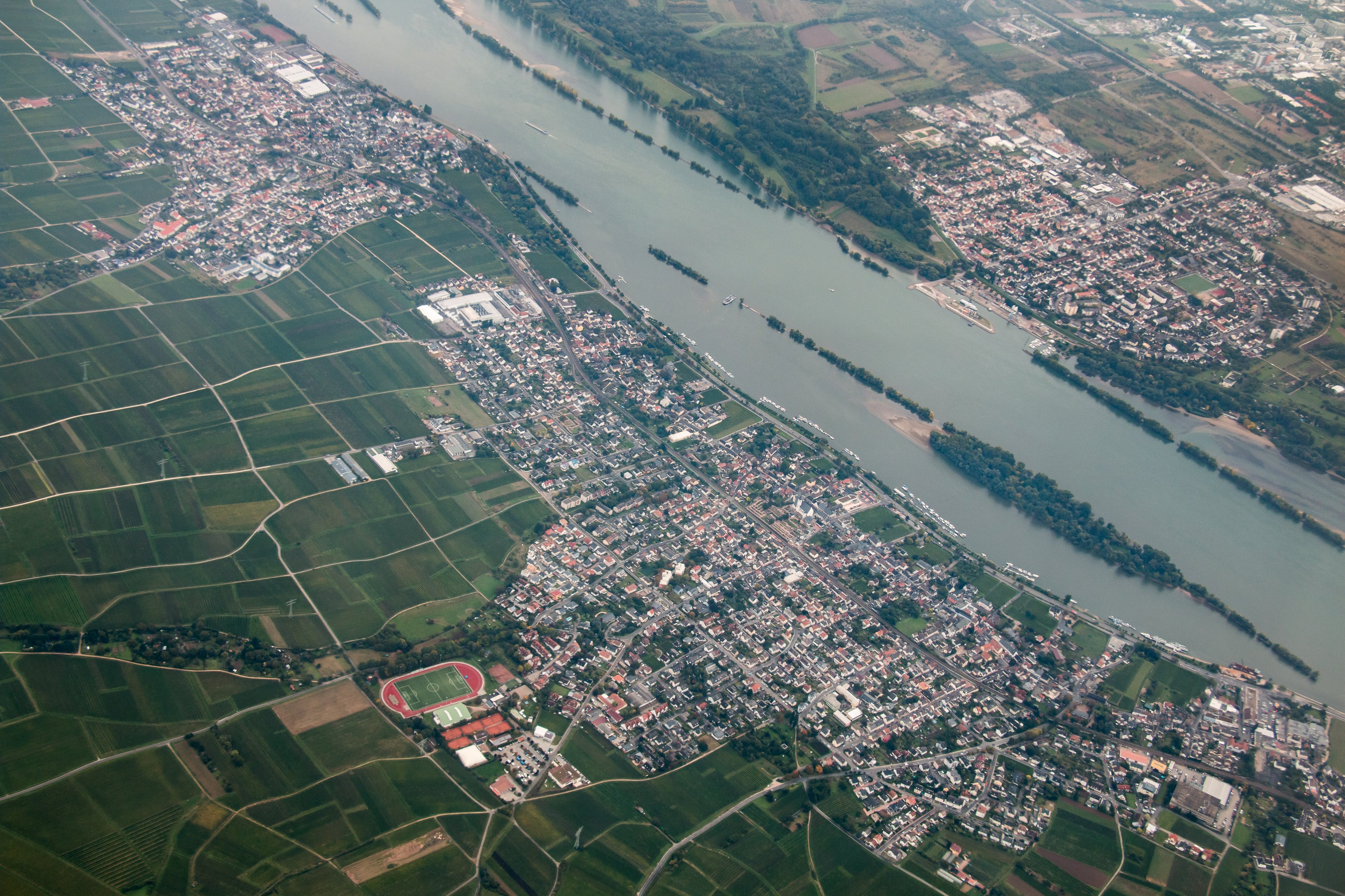 Oestrich-Winkel in the Rheingau